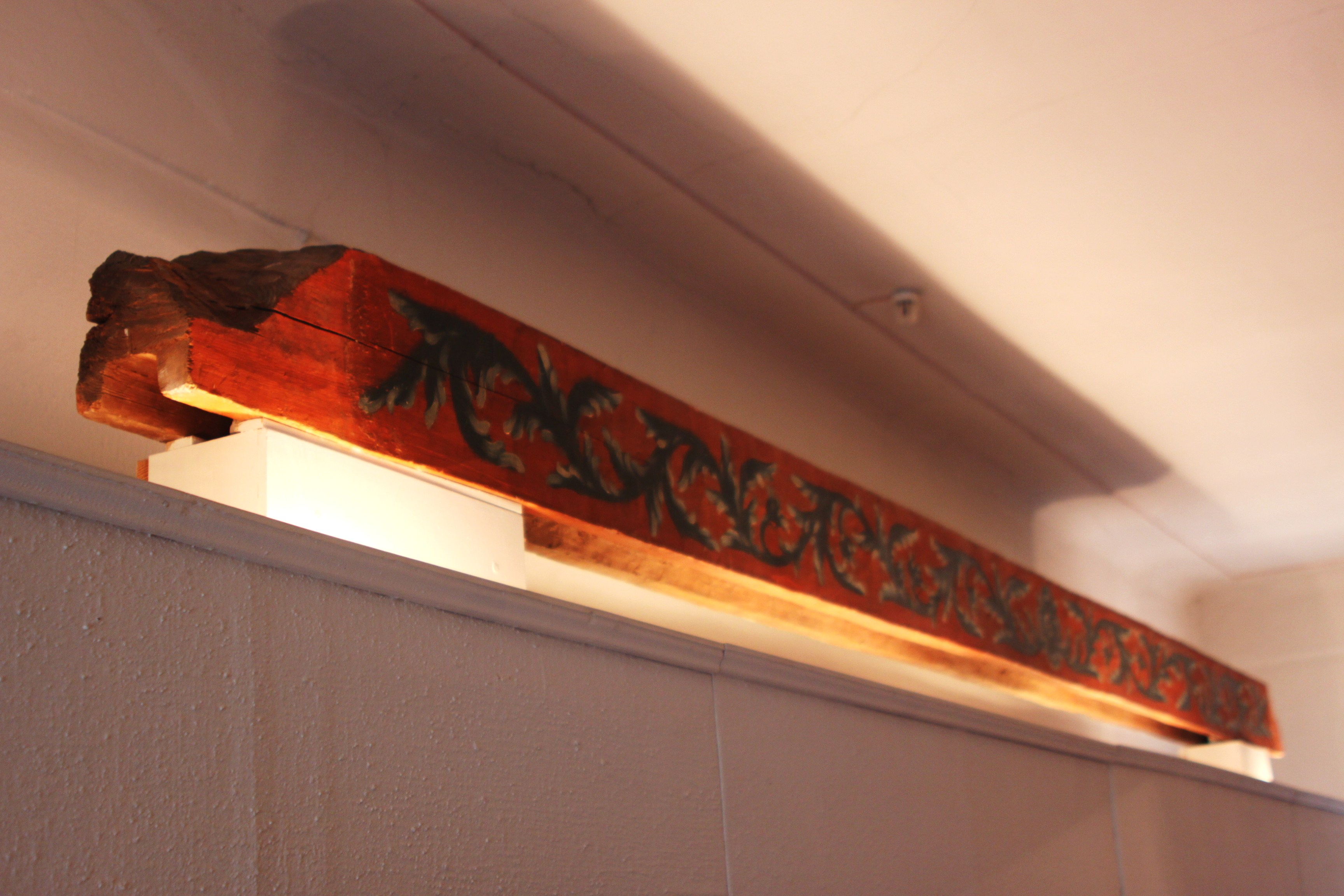 Tyablo - iconostasis beam. Pskov, 18 century.